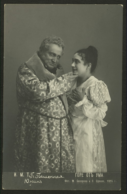 Alexander Yuzhin as Famusov and Vera Pashennaya as Sofia in «Sorrows of the Spirit» by Alexander Sergeyevich Griboyedov.